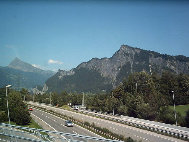 A13 motorway. DF08 2004 image.